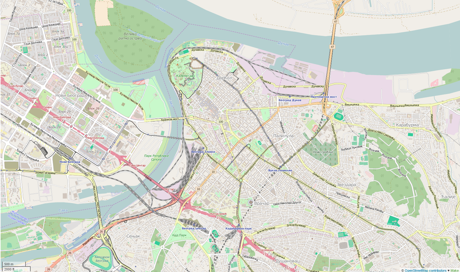 Map of central Belgrade